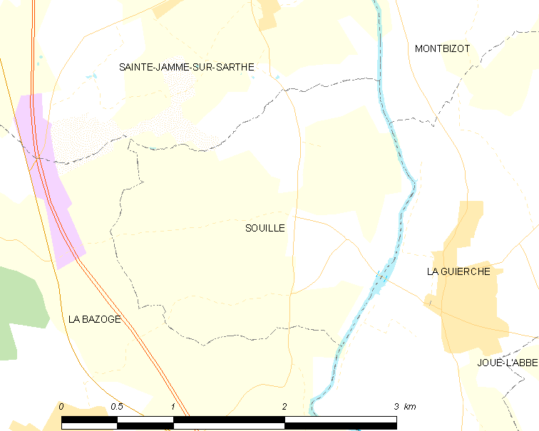 Map of French municipality